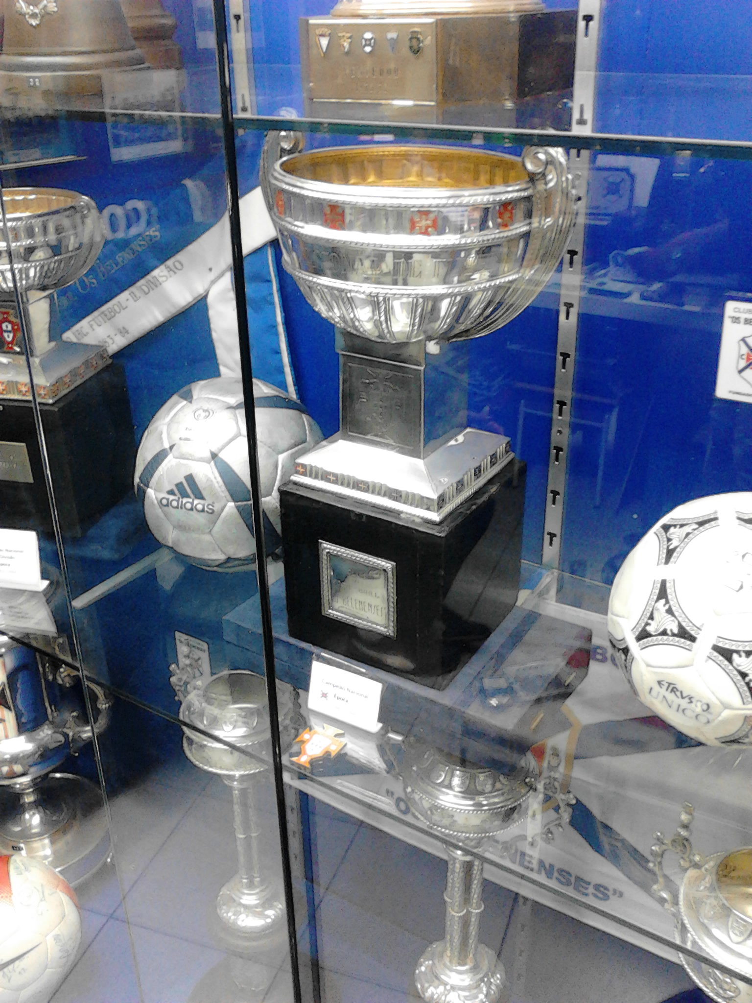 The 1945-46 Primeira Divisão trophy